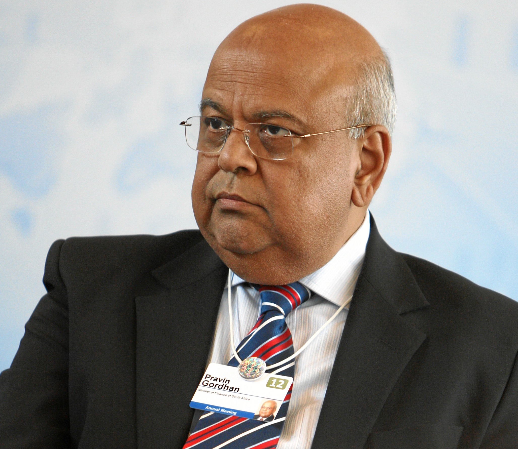 DAVOS/SWITZERLAND, 27JAN12 - Pravin Gordhan, Minister of Finance of South Africa is captured during the IGWEL meeting 'Priming Mexico's G20 Agenda' at the Annual Meeting 2012 of the World Economic Forum in Davos, Switzerland, January 27, 2012.. . Copyright by World Economic Forum. by Sebastian Derungs